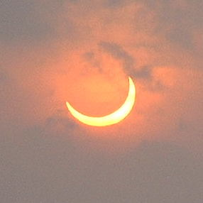 april 8th 2005, locally (Naiguatá,Venezuela) partial eclipse at sunset. Several seagulls in the sky. Pictures taken by me and Sandra